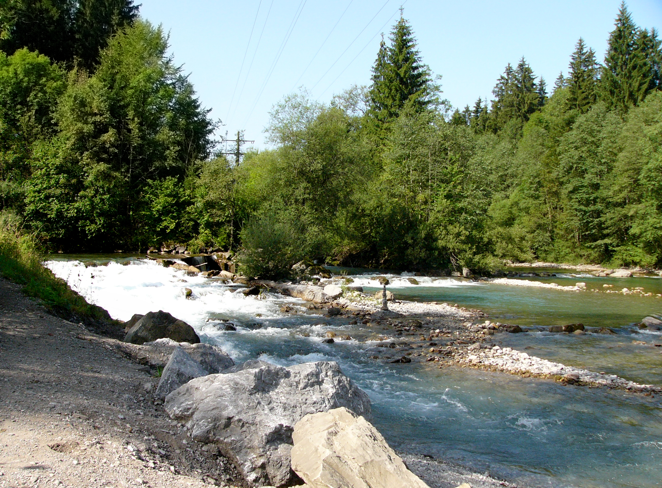 Illerursprung is the confluence of Breitach (right), Stillach (middle) and Trettach (left) near Oberstdorf in Bavaria, Germany.